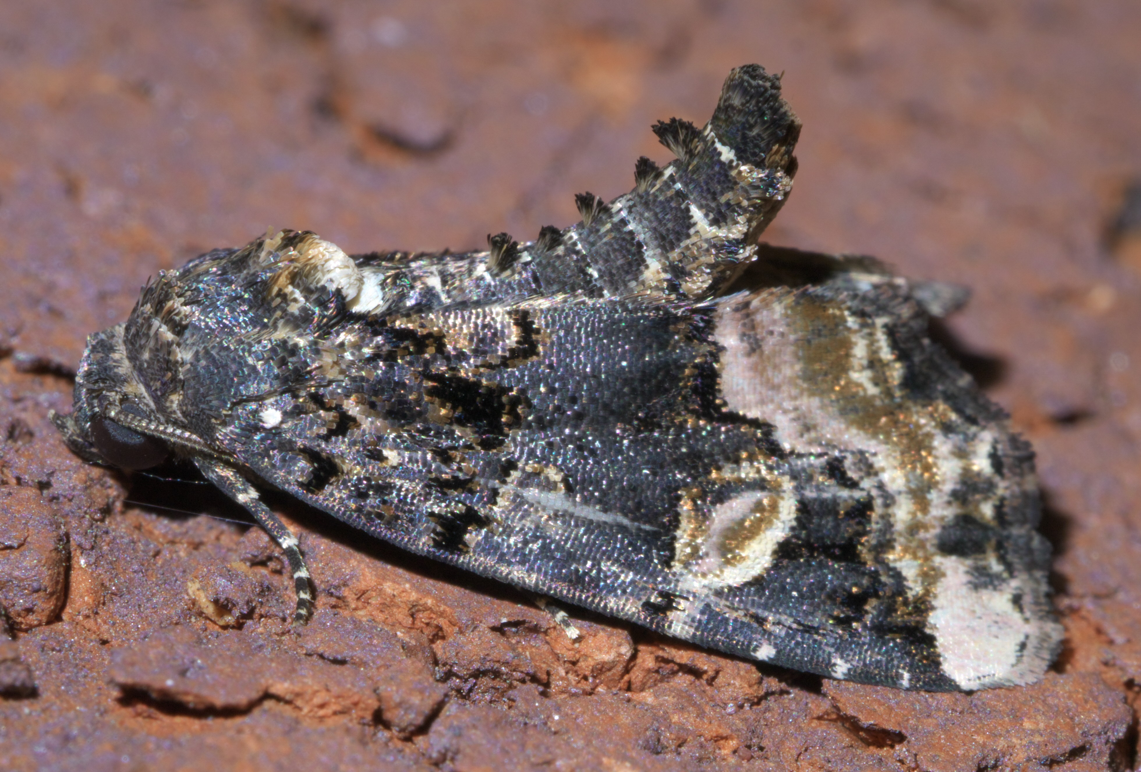 Homophoberia apicosa, Black Wedge-Spot - Hodges #9057, ID Confidence: 90